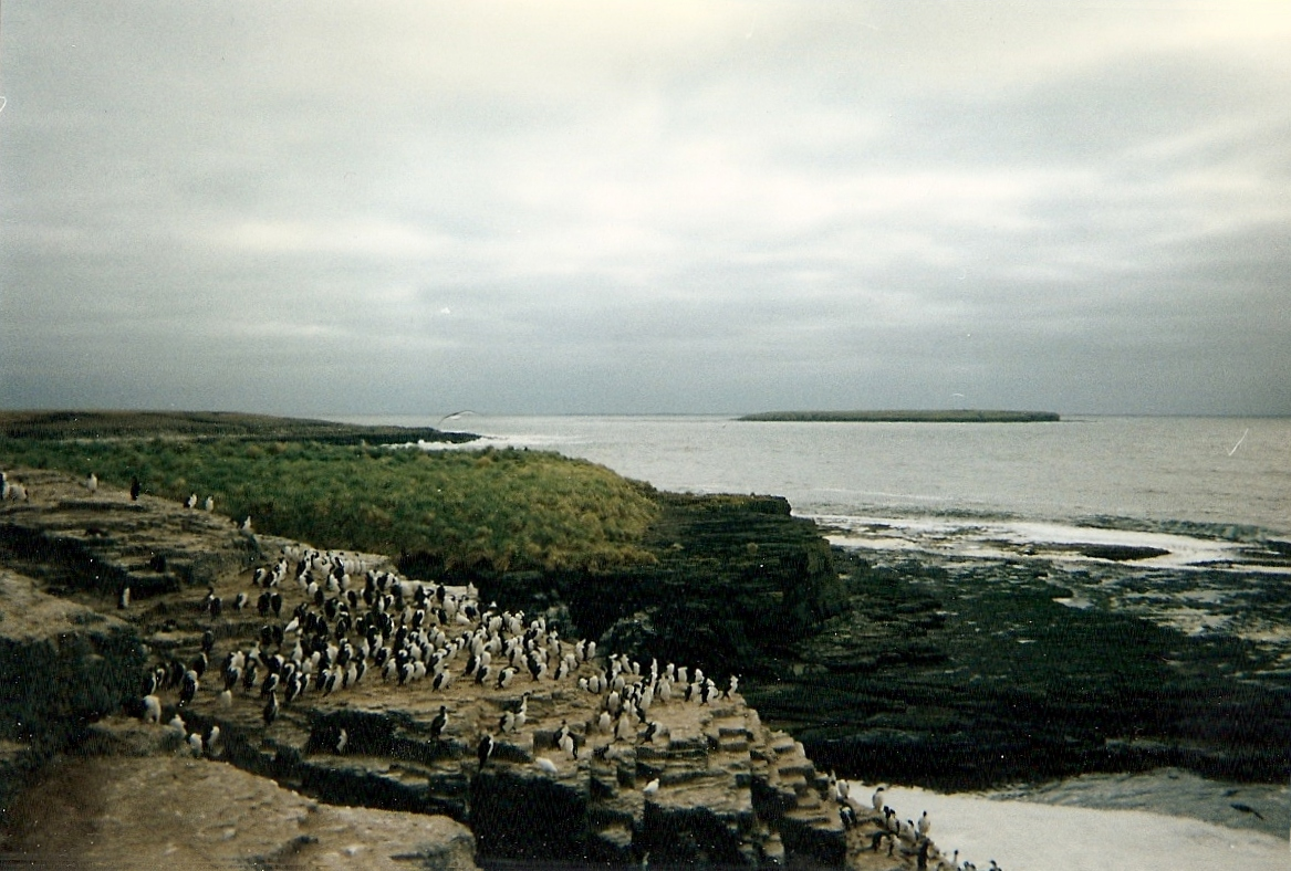 Rock Cormorants on Bleaker Island in the Falkland (Malvinas) Islands.